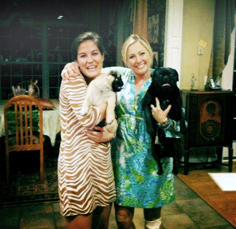 Ann-Blair Thornton and Mallory Ervin.